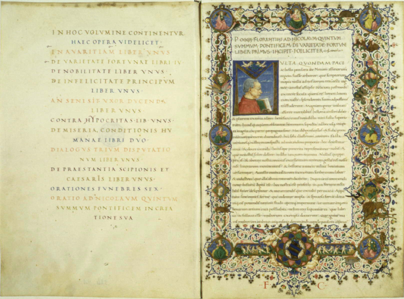 De varietate fortunae, Vatican Library, Ms. Urb. lat. 224